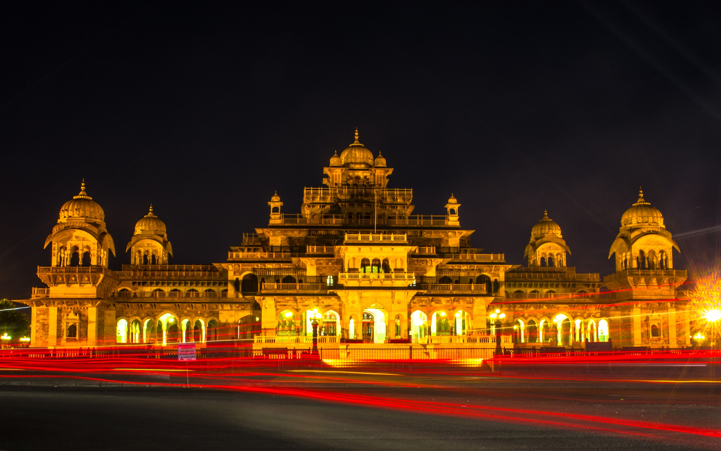 Albert Hall Museum is a historical center in Jaipur city in Rajasthan condition of India. It is the most seasoned historical center of the state and capacities as the State exhibition hall of Rajasthan.